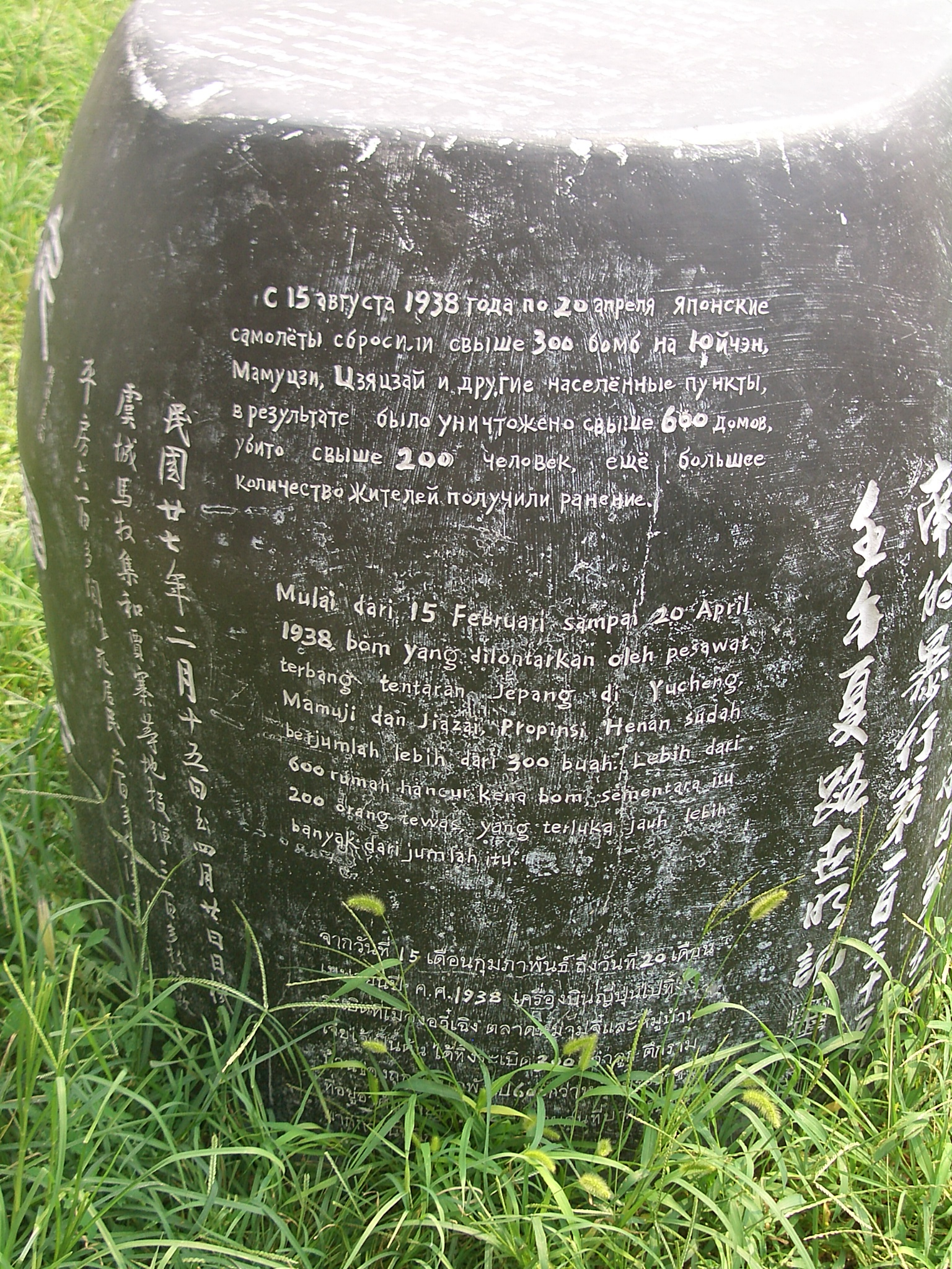 At the south wall of the Wanping Castle in Beijing. The spot damaged by the Japanese shelling during the Marko Polo Bridge (Lugouqiao) Incident in 1937 are marked with a memorial plaque. The text on the row of black stone drums along the walls tells the story of the War againt Japan that followed the incident.